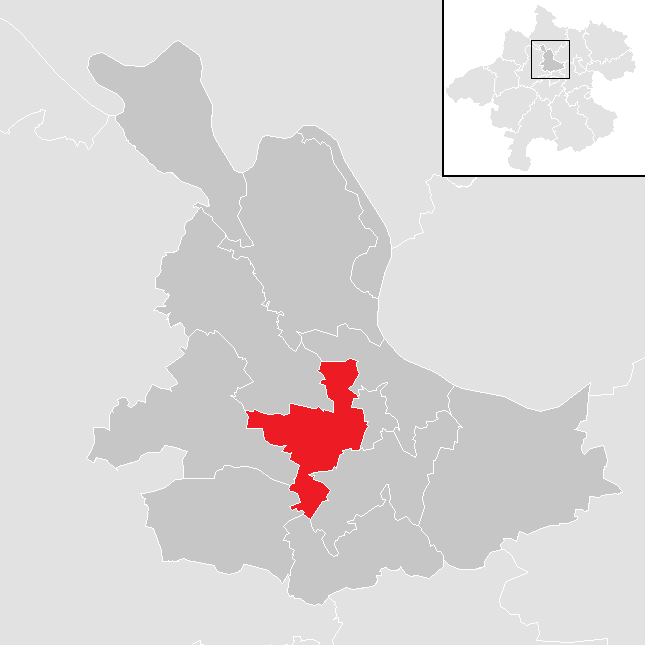 district Eferding